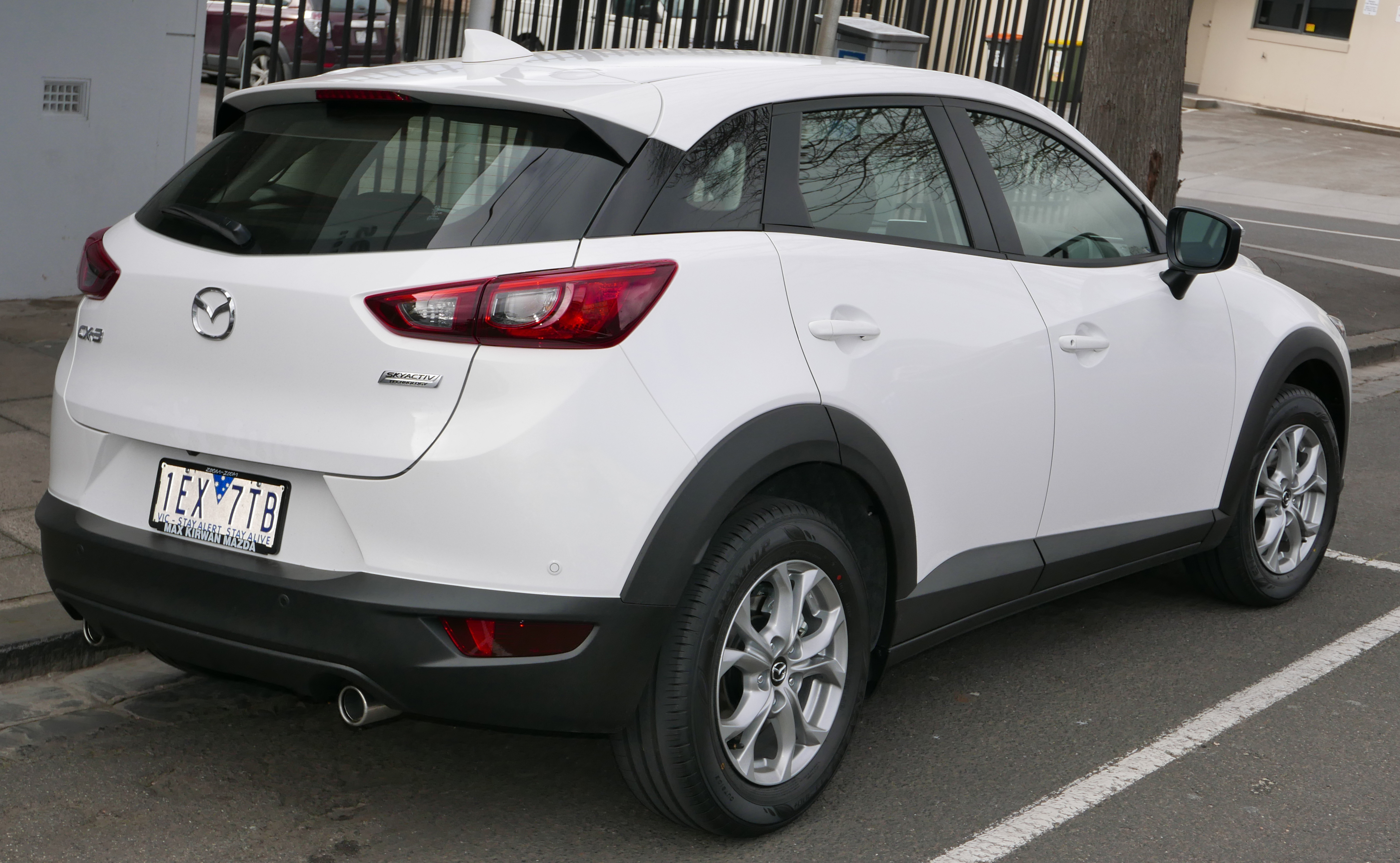 2015 Mazda CX-3 (DK) Maxx 2WD wagon. Photographed in Geelong, Victoria, Australia. Vehicle registration enquiry resultsJurisdictionVictoriaRegistration1EX7TBChassis codeJM0DK2W7600104981Engine codePE30771790Compliance date2015-06Year of manufacture2015